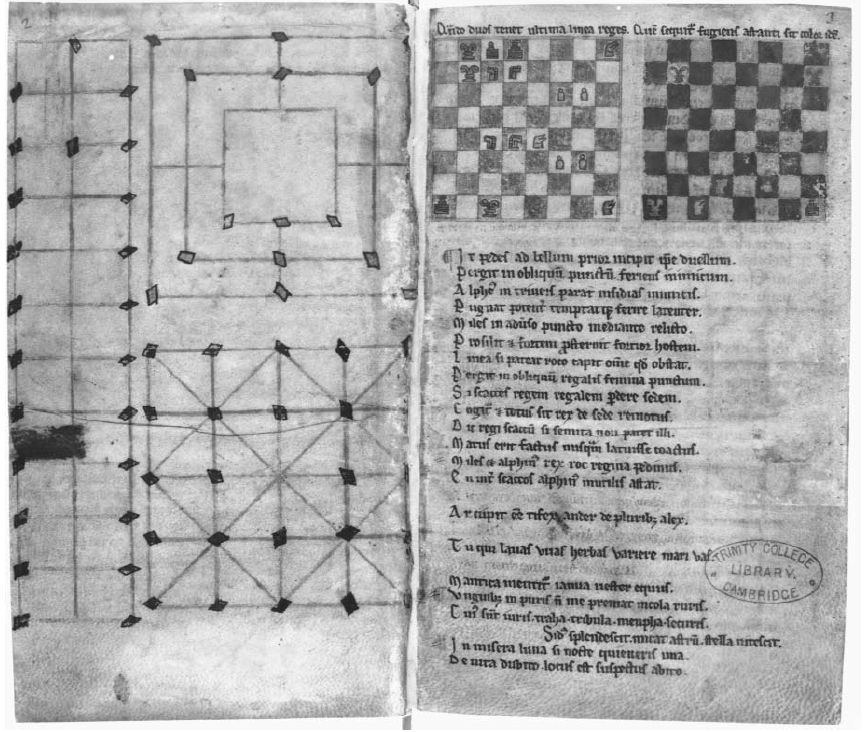 Photo of manuscript from 1250-1300, showing possible Daldøs board. Cambridge, Trinity College Ms. O.2.45 (Miscellanea Cerne Abbey), fol. 1v